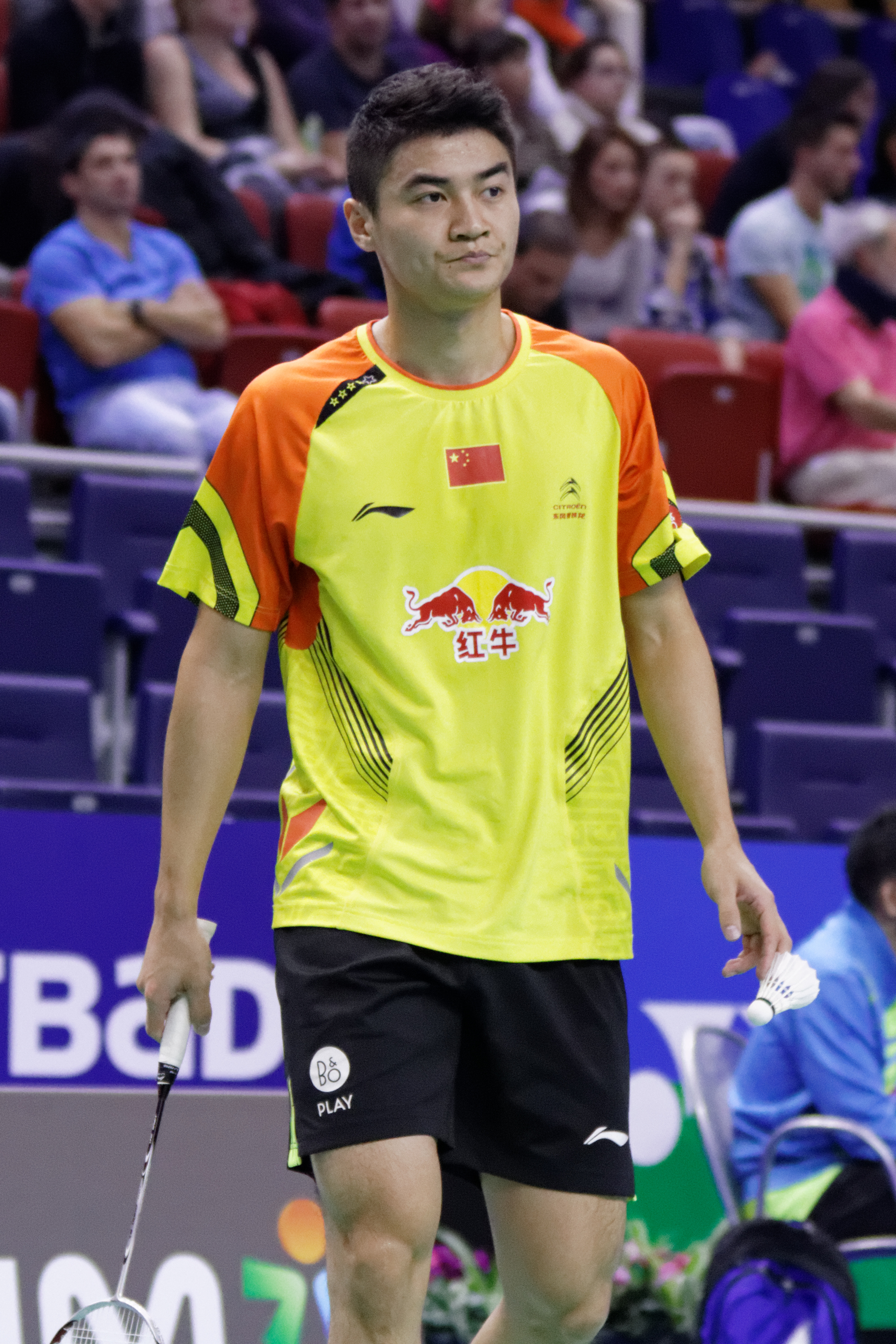 2013 French open. Men's singles eightfinal. Tommy Sugiarto vs Chen Yuekun.